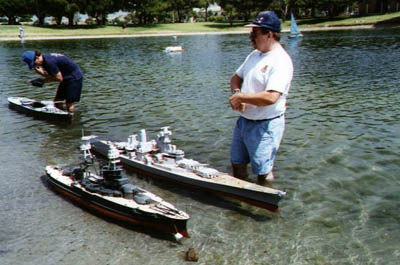 Large Scale Model Warships in San Diego, California. Photographed by Kurt Greiner, released to the public domain by author.